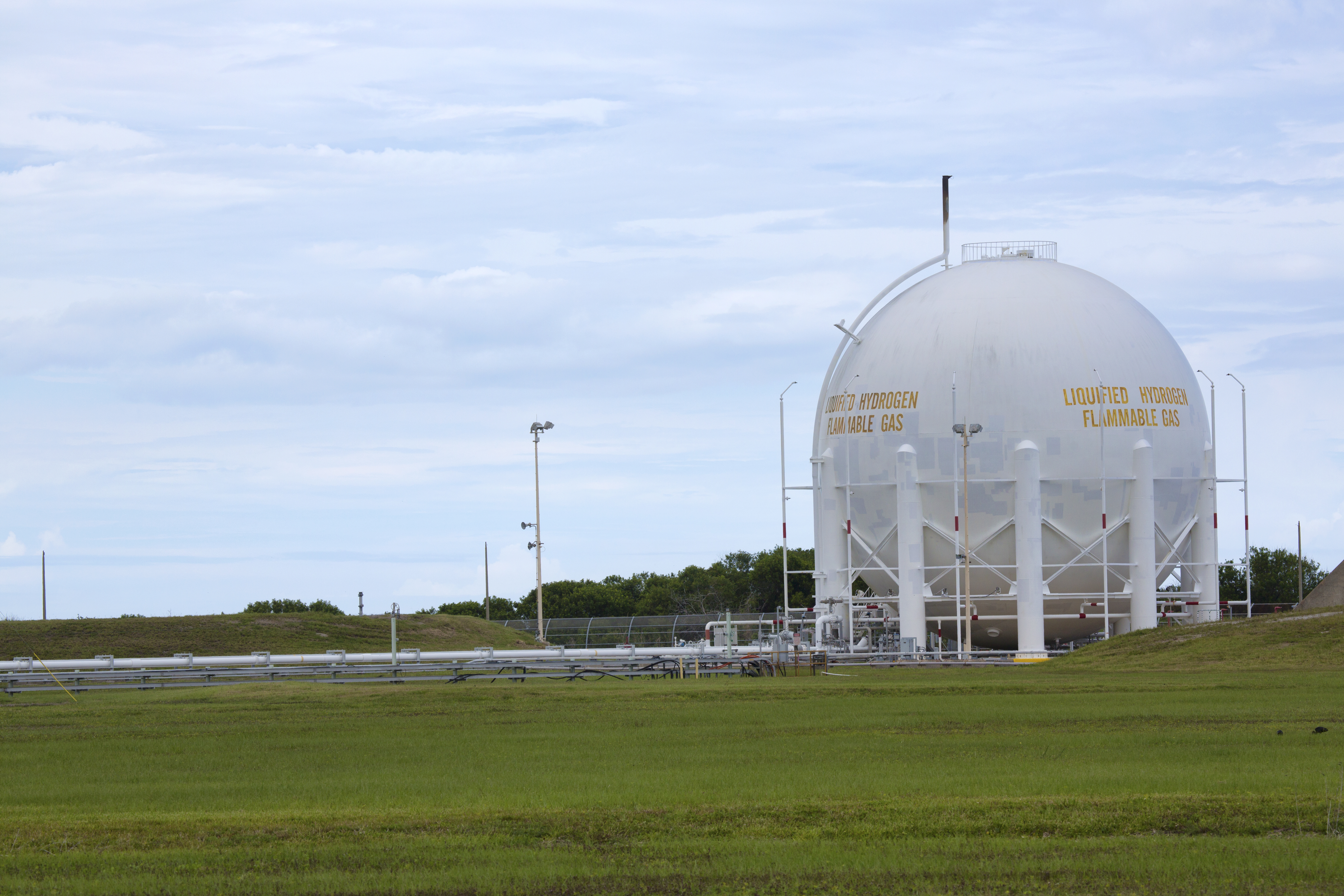 Storage tank for liquid hydrogen fuel located just to the Northeast of Kennedy Space Center's former shuttle launch pad 39-A. The image shows the tank and fuel lines on this permanent facility.